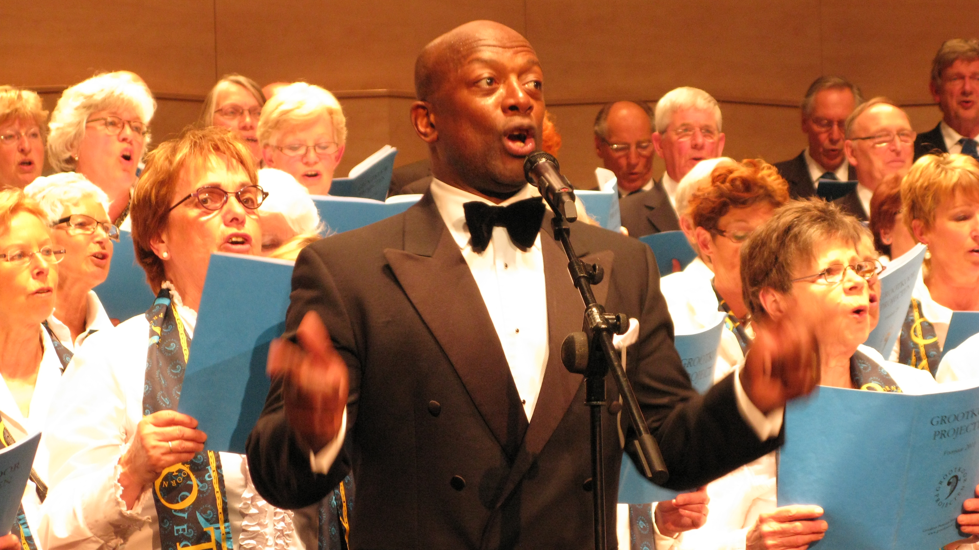 Het Grootkoor Rotterdam ft. Tony Henry